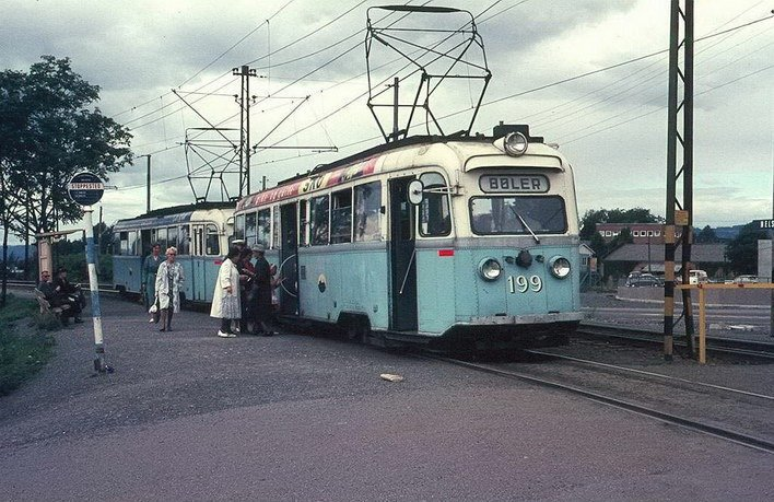 Gullfisk tram no. 199 at Helsfyr.